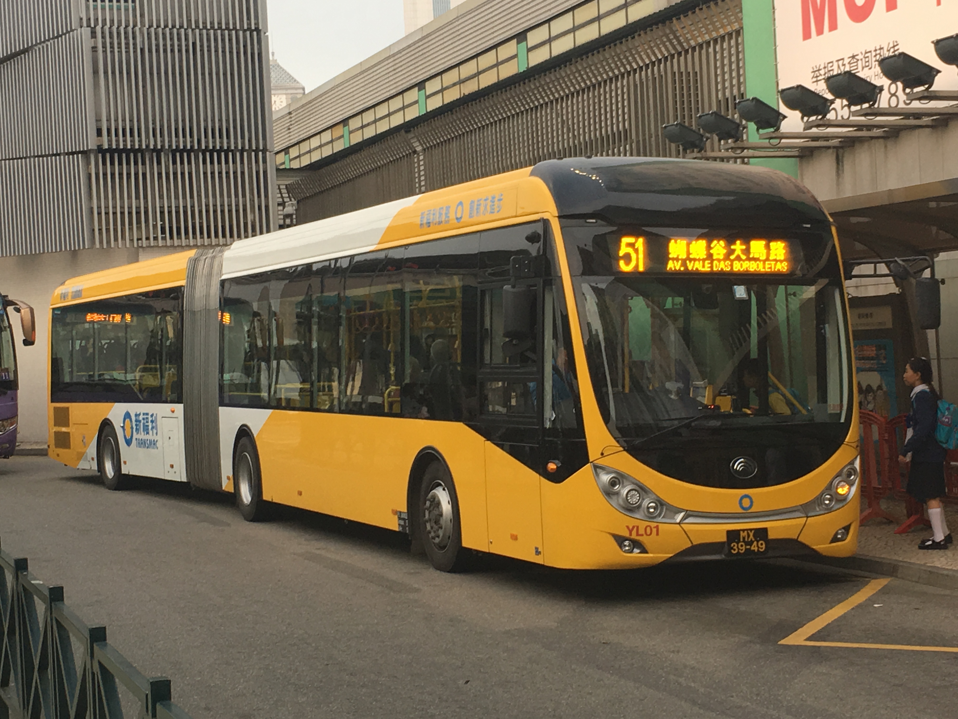 中文（香港）: This photo is taken in Border Gate.